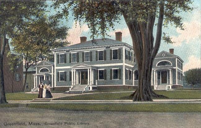 Greenfield Public Library, Greenfield, Massachusetts. The Leavitt-Hovey House was designed by Asher Benjamin for Greenfield attorney and businessman Jonathan Leavitt, and built in 1797.